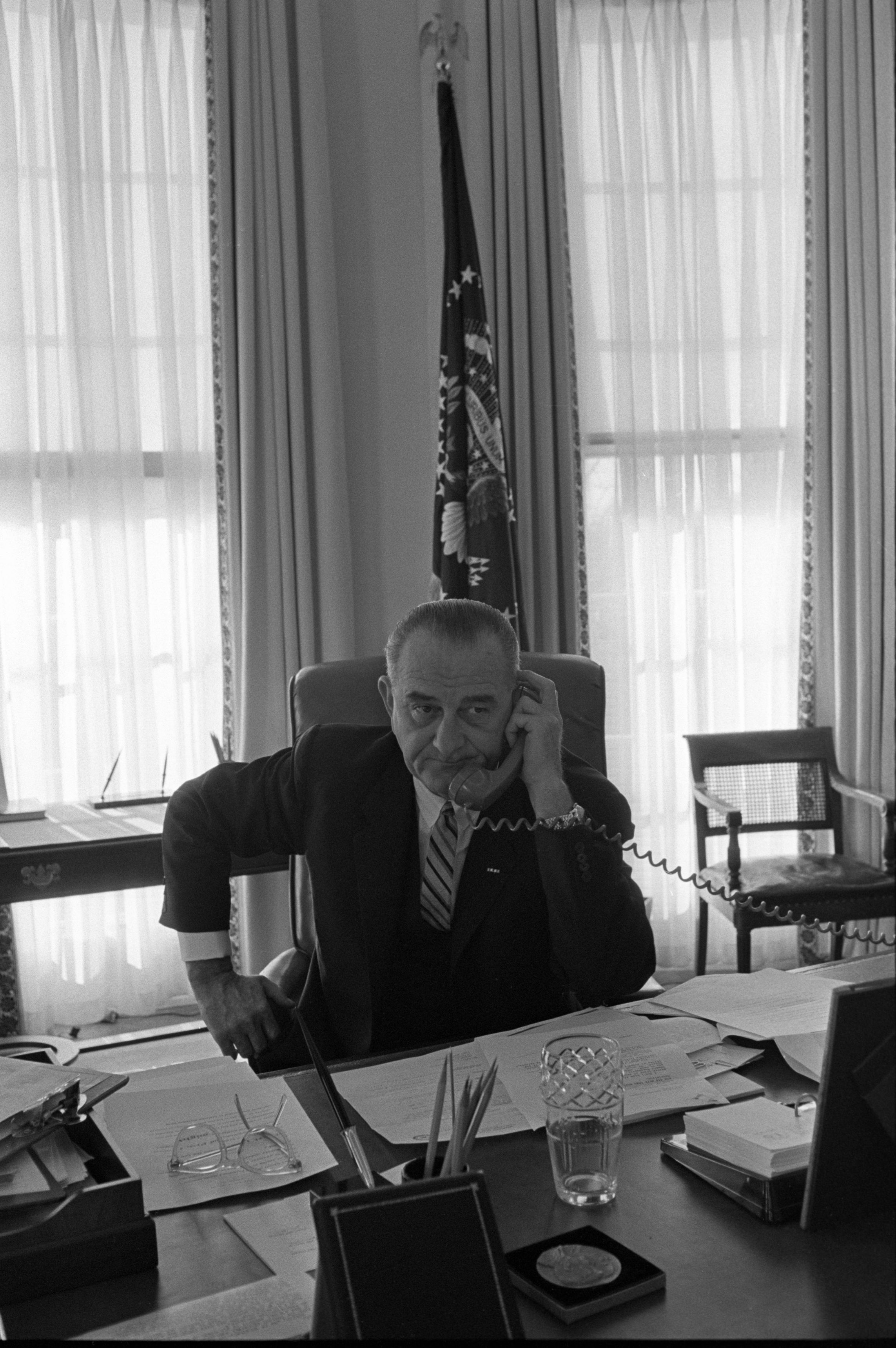 Lyndon B. Johnson on telephone, 1964